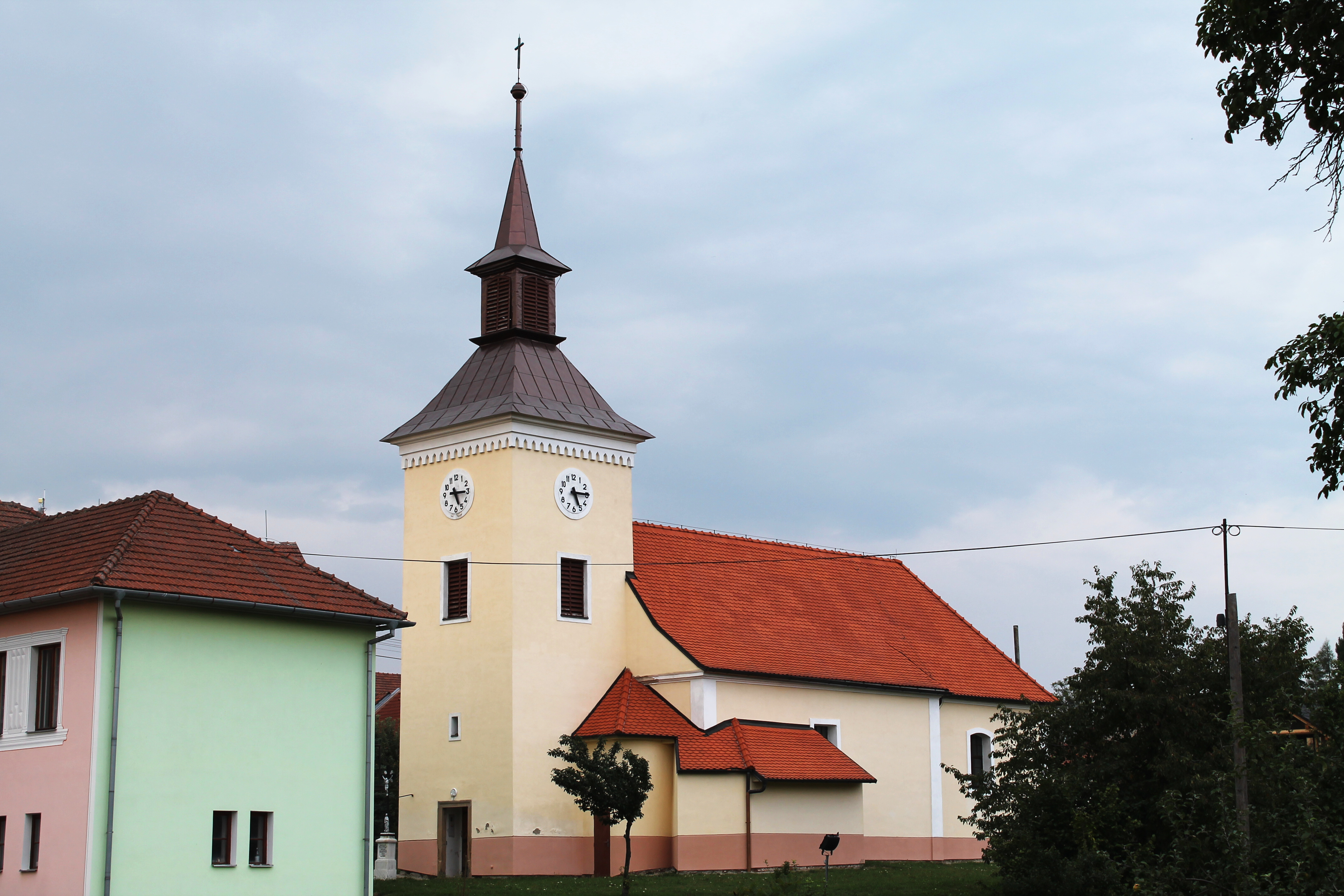 Church of Saint James the Greater, Rašov, Brno-Country District, Czech Republic